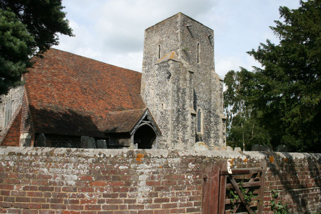 St. Giles Church near Tonge